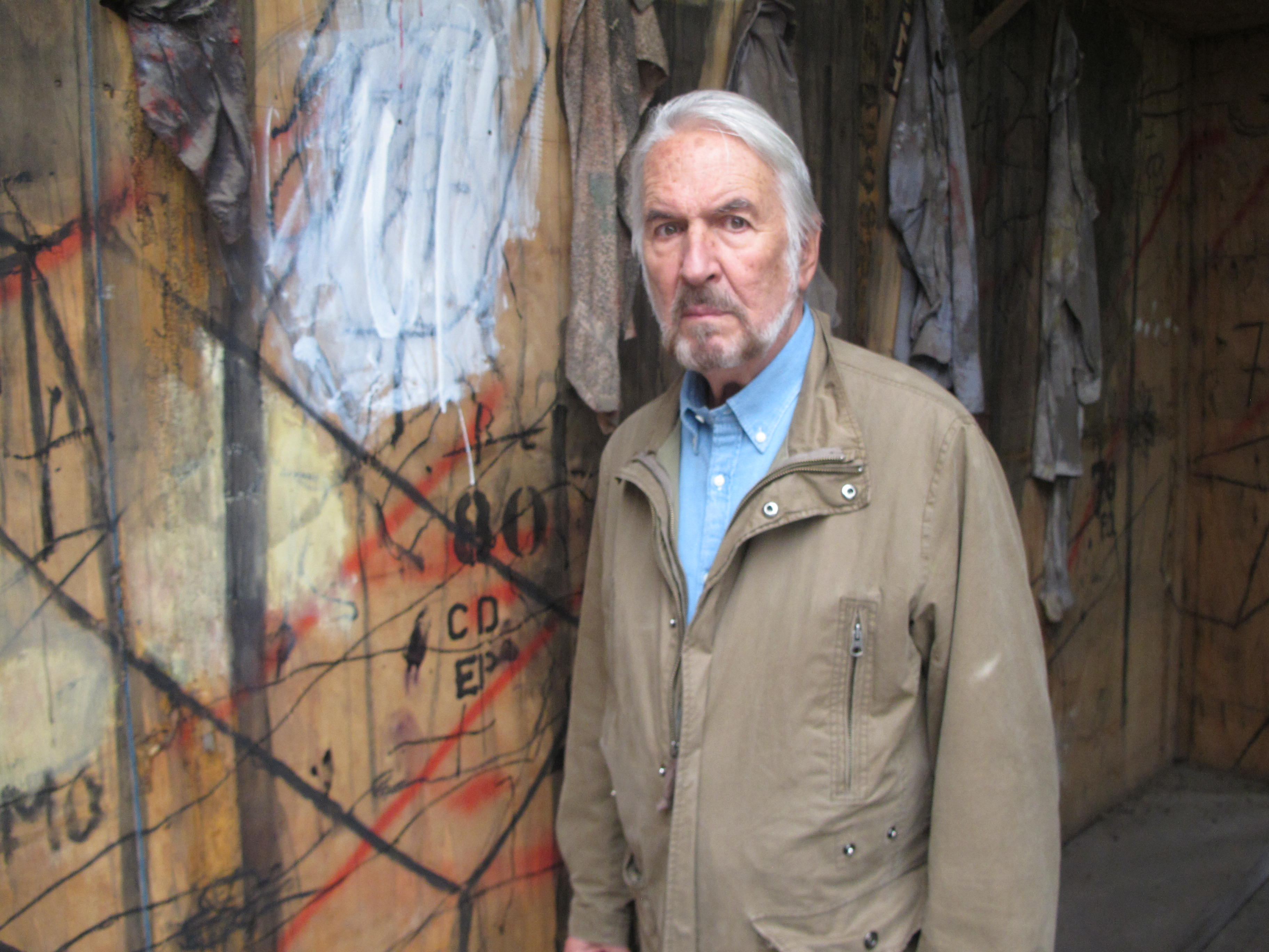 Javier de Villota with Gracia Barrios and José Balmes at his Studio in Santiago. Chile. 2013